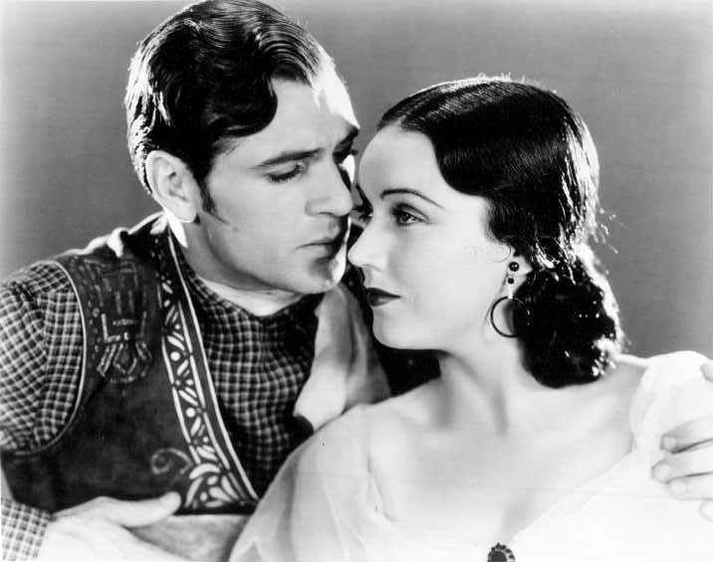 Gary Cooper and Fay Wray in a publicity photo for The Texan (1930).